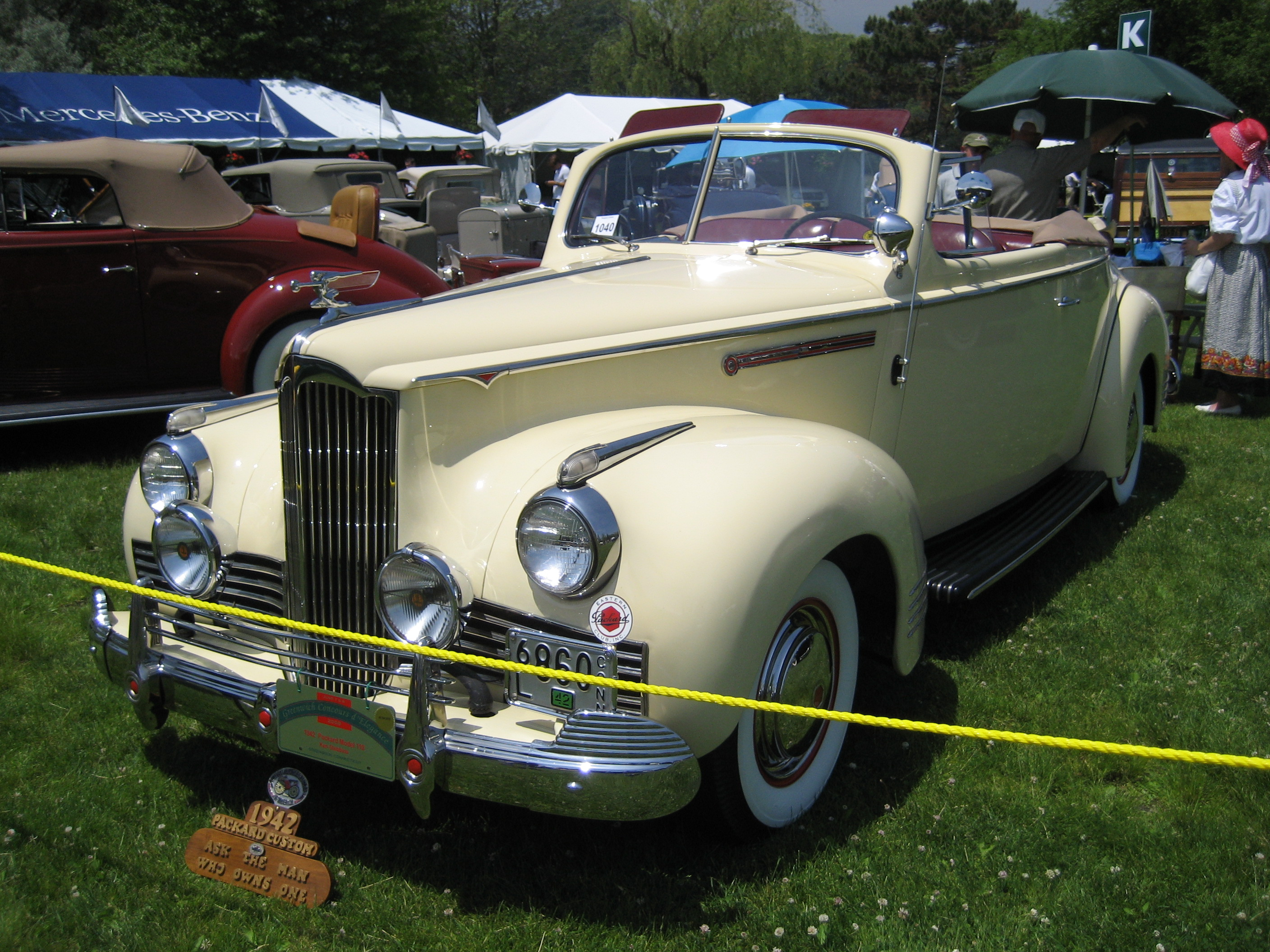 1942 Packard Model 110 convertible photographed at the 2008 Greenwich Concours d'Elegance in Greenwich, Connecticut.